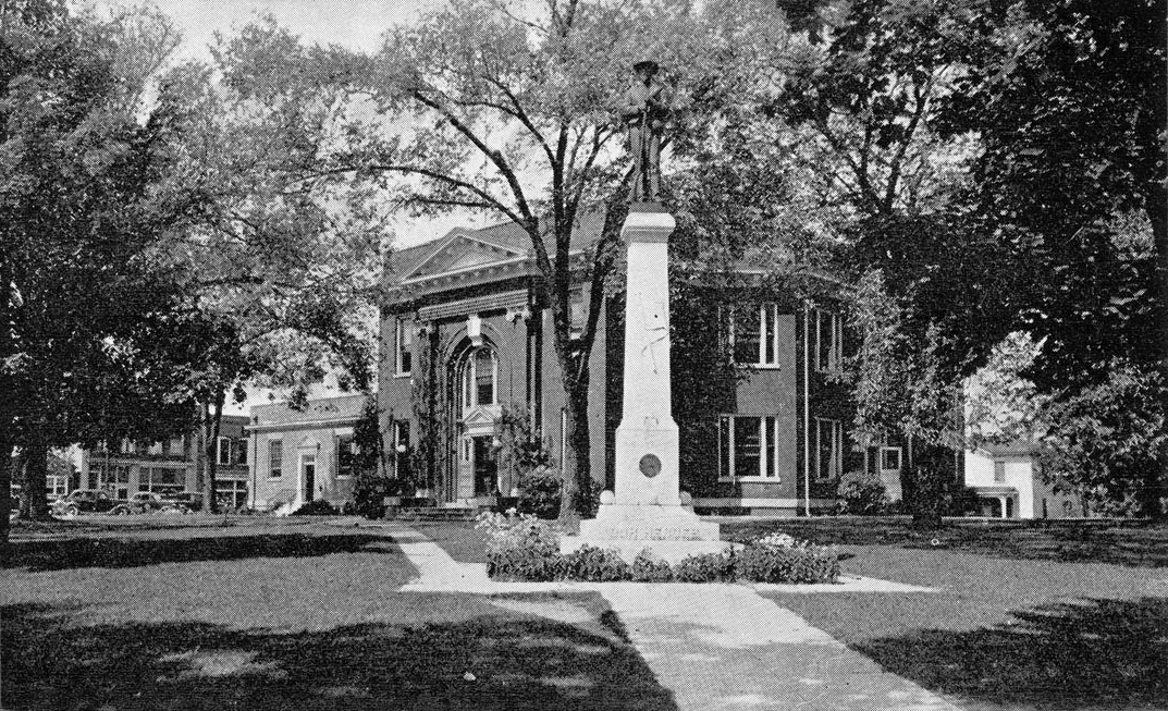 From PhC.184 Massengill Postcard Collection, August 2015 addition, State Archives of North Carolina, Raleigh, NC.